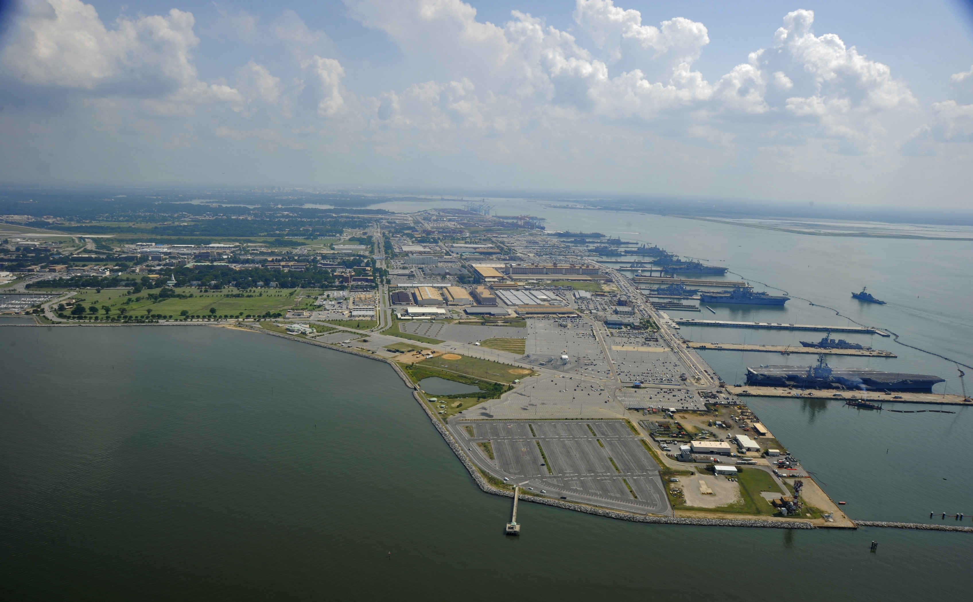 NORFOLK (July 7, 2011) An aerial view of Norfolk Naval Station, the largest naval base in the world. (U.S. Navy photo by Mass Communication Specialist 1st Class Christopher B. Stoltz/Released)